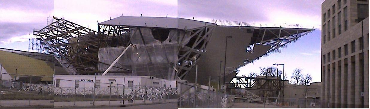 Rough composite Image of the expansion Frederic C. Hamilton Building of the Denver Art Museum, under construction Photo by Ben Willett, MrB Please feel free to edit to clean up transitions